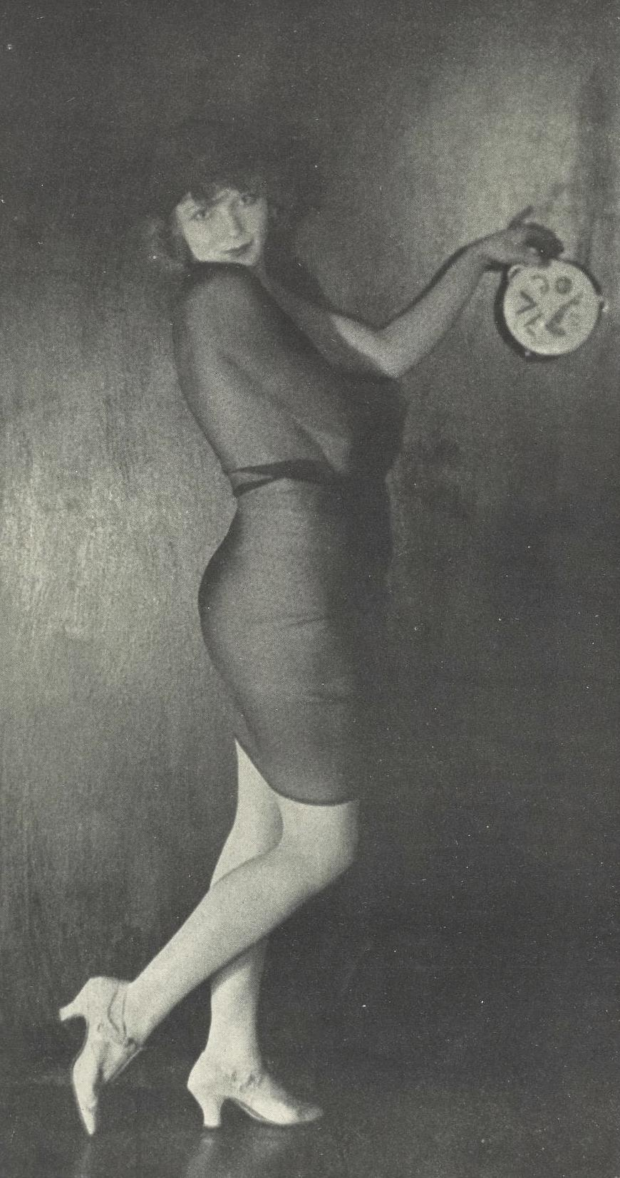 Gilda Gray (Misspelled in the magazine as "Gilda Grey")